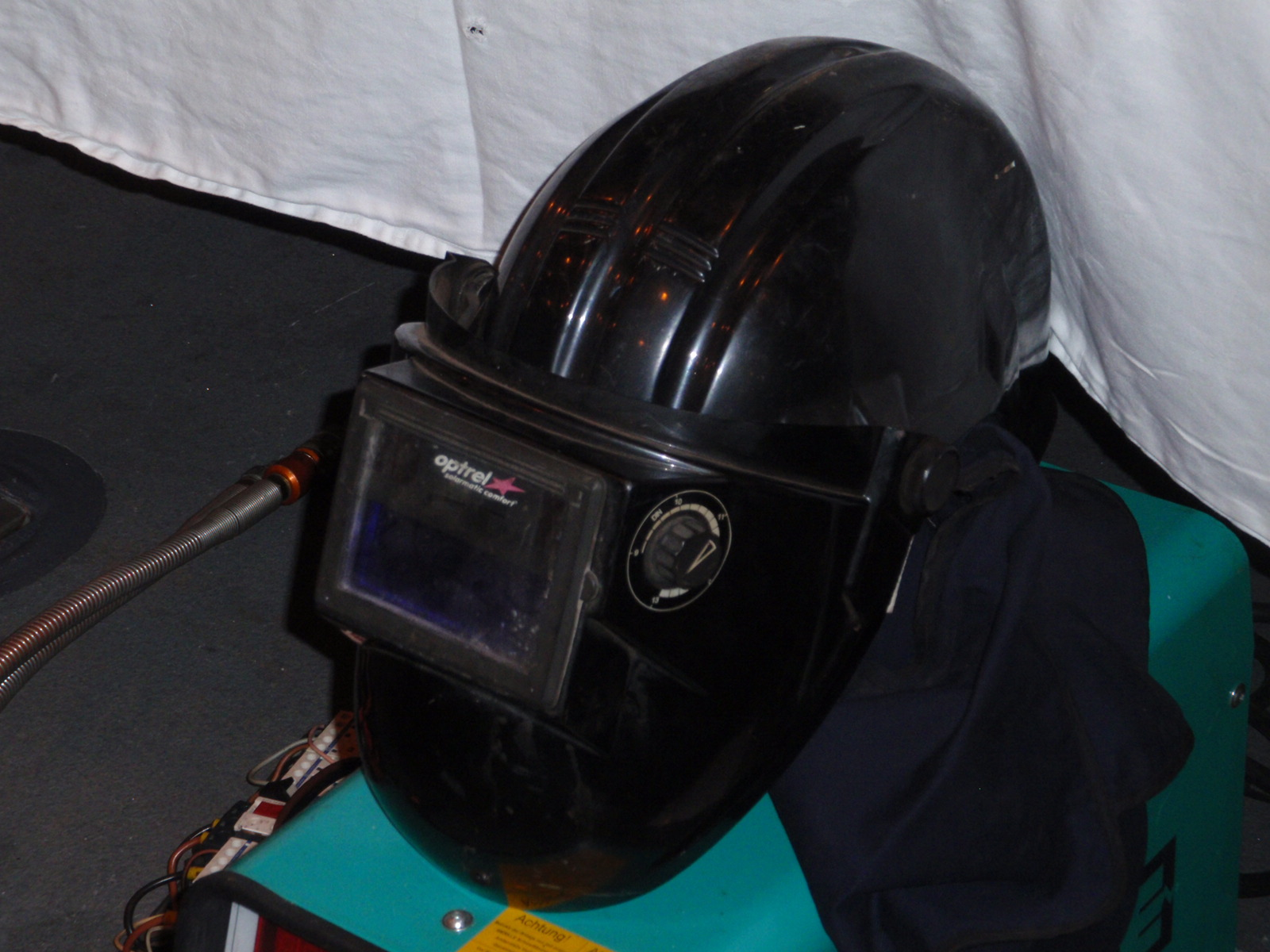 Helmet with arc-welding visor, HMS Illustrious (R06) visiting Liverpool, 25 October 2009